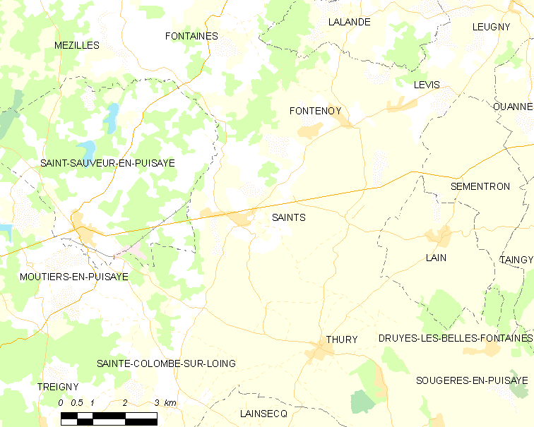 Map of French municipality Saints